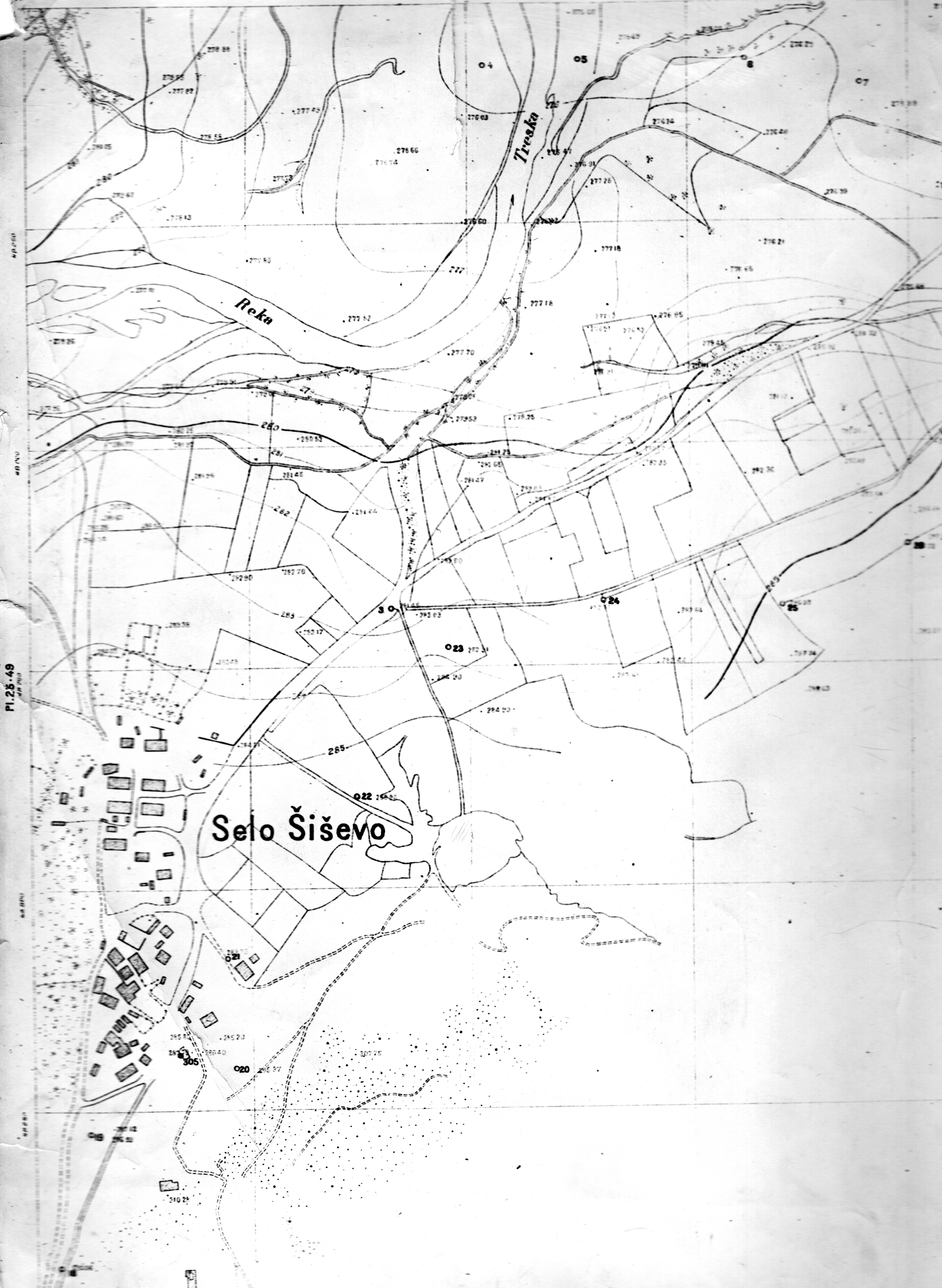 Geodesy map of Shishevo, Macedonia, an aero photogrammetric map (1930s). This media file is produced by Wikipedian in Residence in Category:Wikipedian in Residence at DARM in 2017.